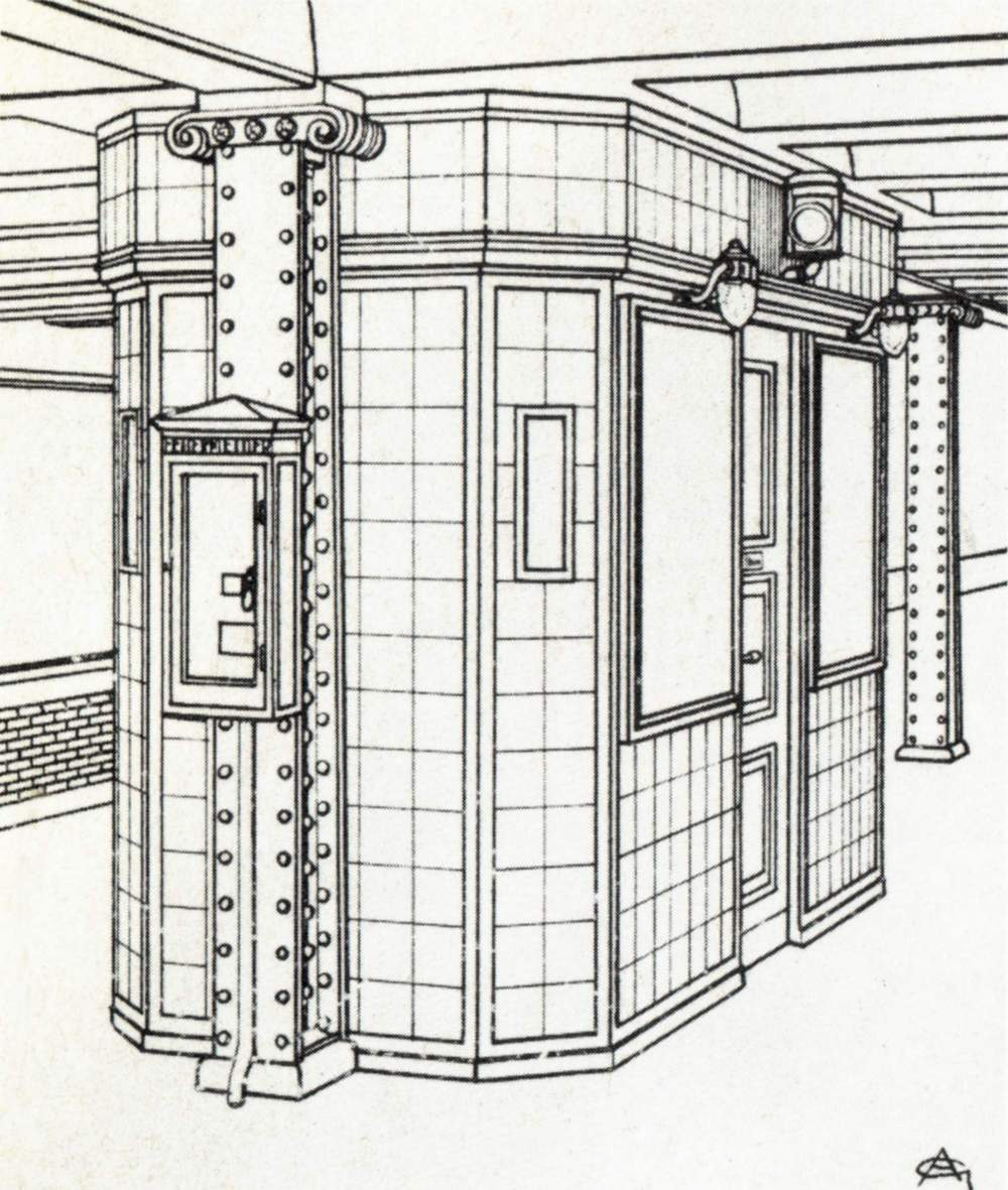 The Berlin U-Bahn station Schönhauser Tor (now Rosa-Luxemburg-Platz), line U2